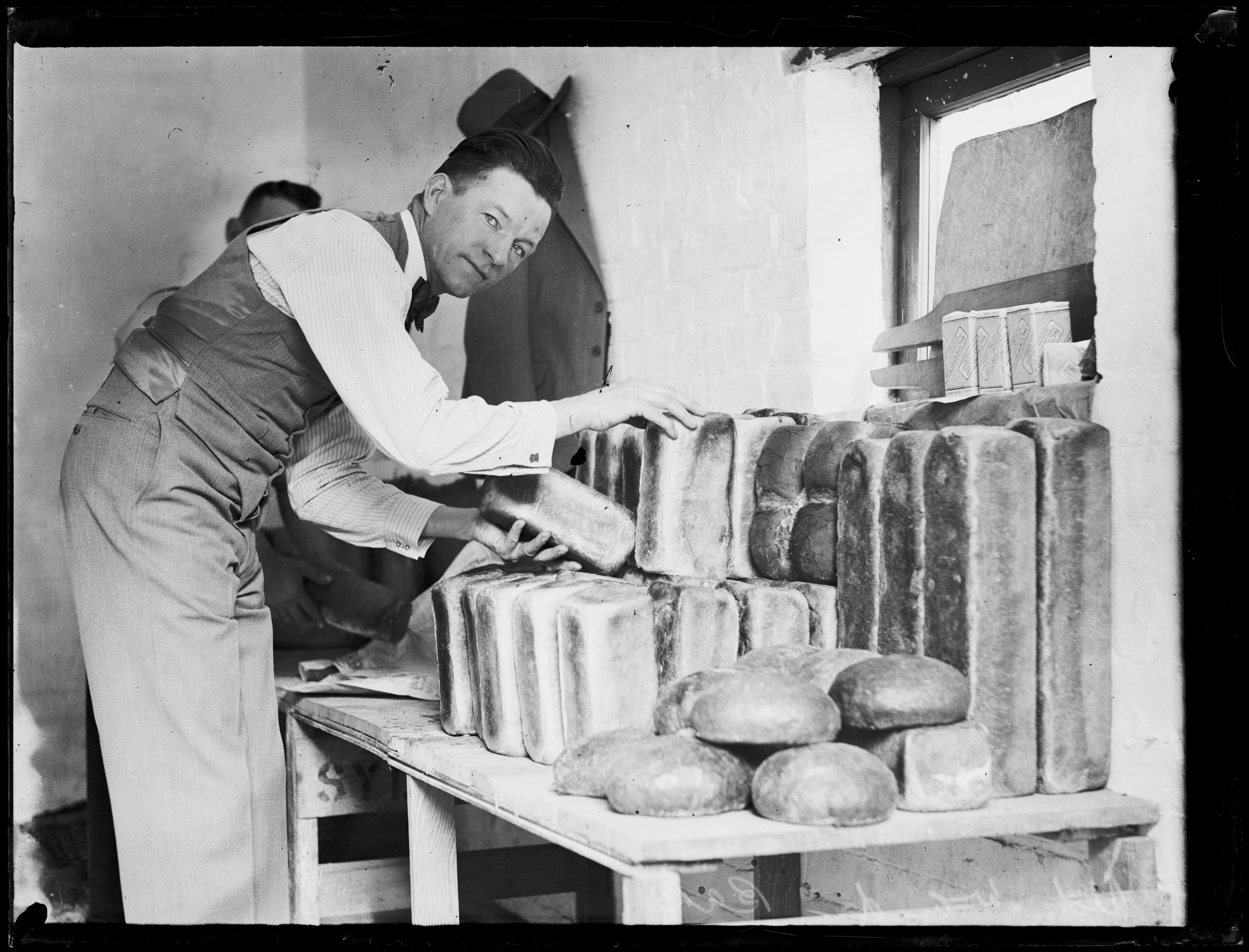 Australian politician and Sydney alderman Eddie Ward organising loaves of bread for distribution during the Great Depression